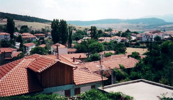 Picture of Vevi, Greece.